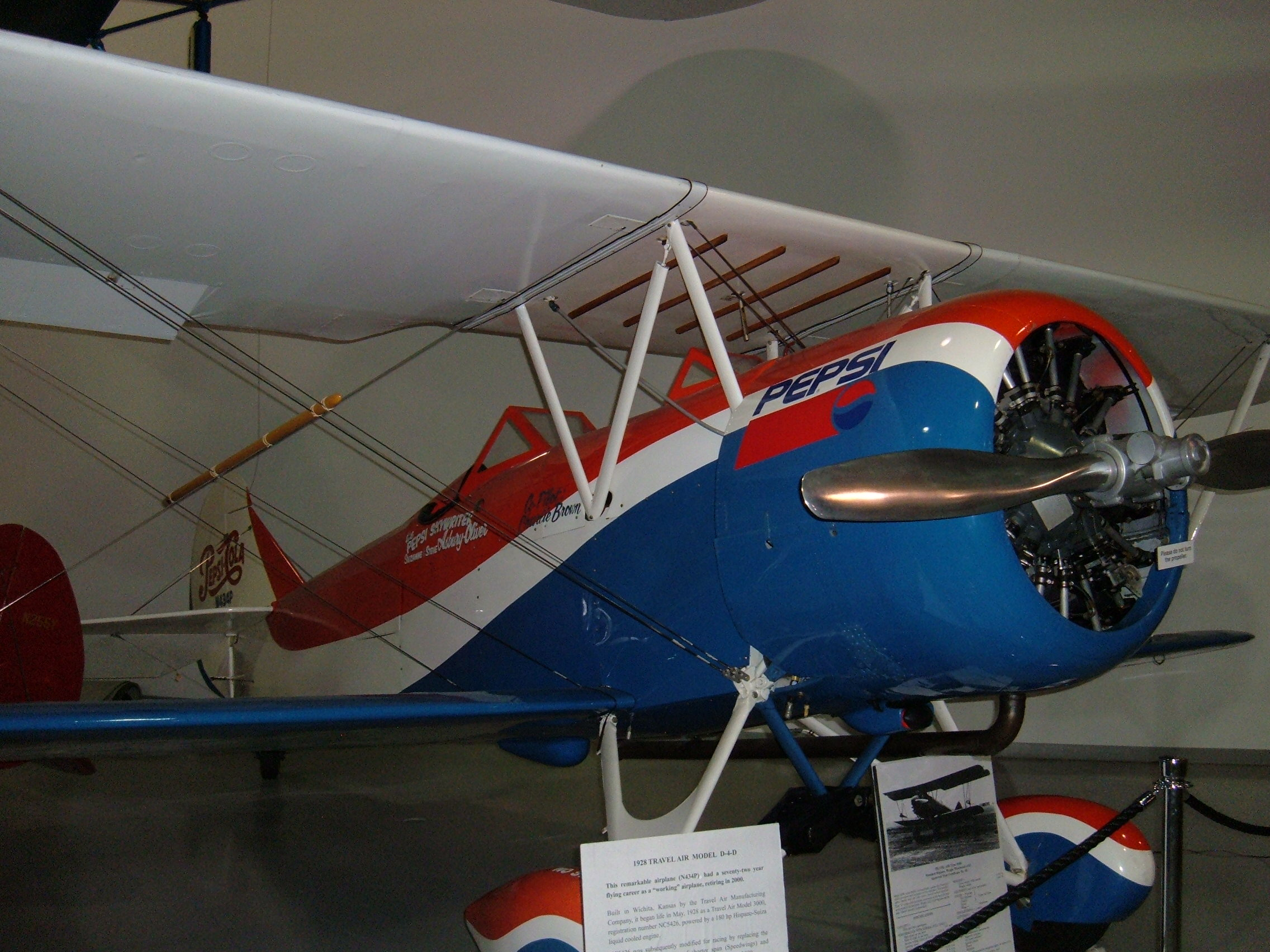 1928 Travel Air Model D-4-D on display at the Hiller Aviation Museum in San Carlos, California.